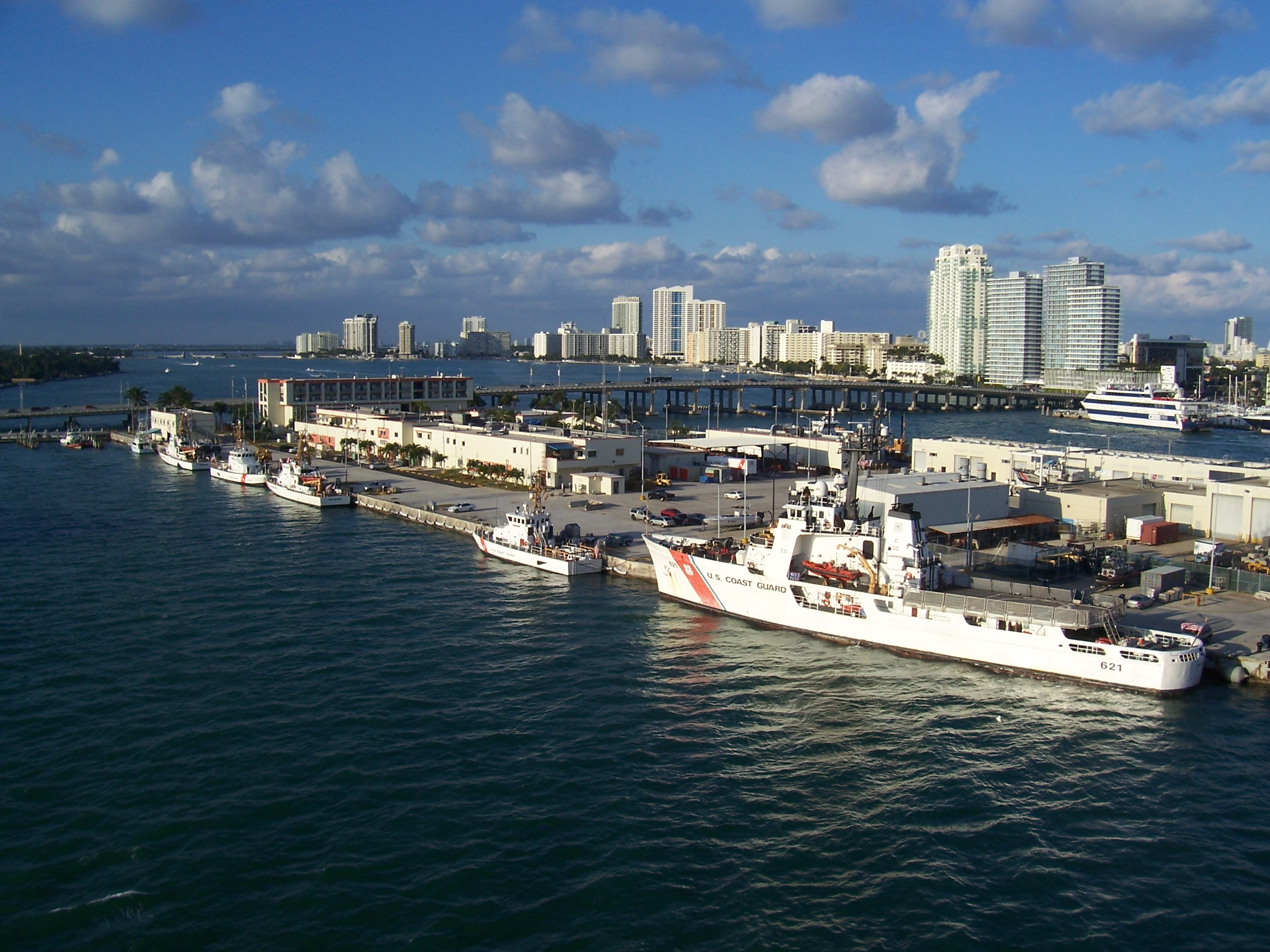 The USCGC Valiant (WMEC-621) in Miami next to four other coast guard ships